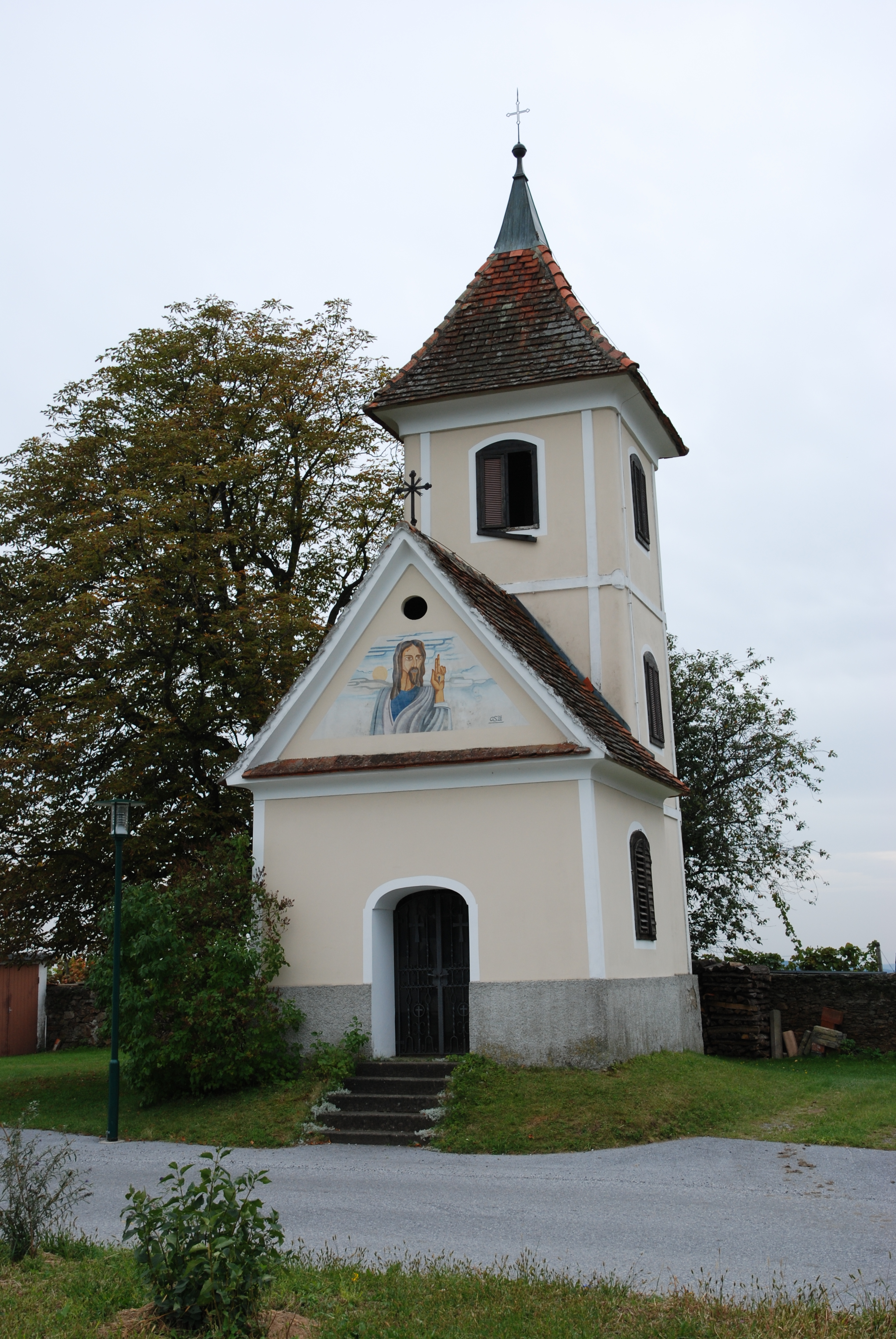 Kapelle Reichendorf